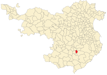 Campllong